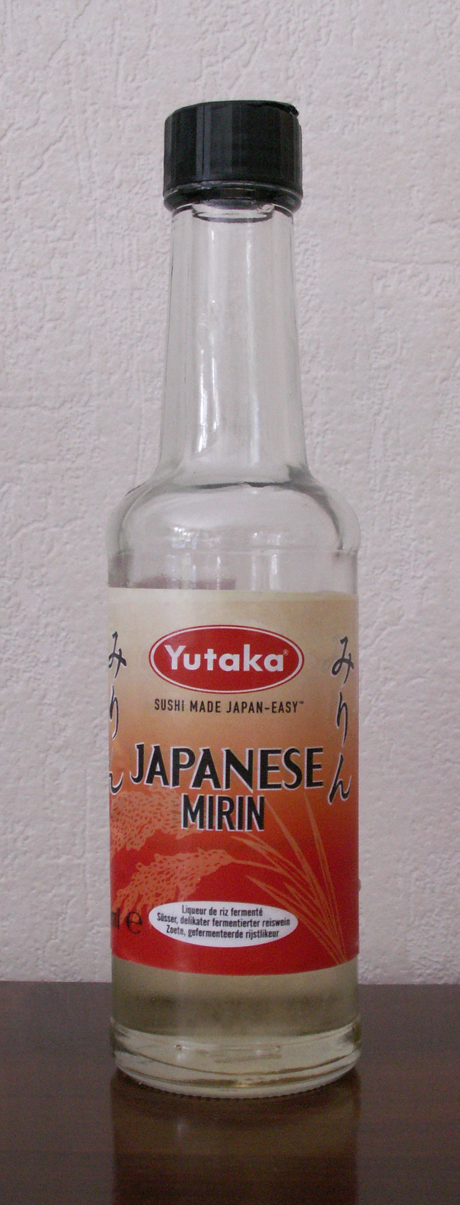 Bottle of Japanese Mirin